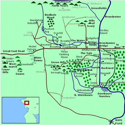 A map of The Shire, from J.R.R. Tolkien's legendarium; most notably The Hobbit and The Lord of the Rings. Other information Some places on the map are somewhat conjectural.